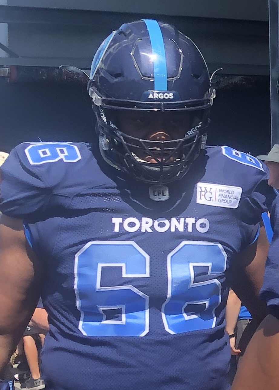 Isiah Cage, offensive lineman for the Toronto Argonauts.